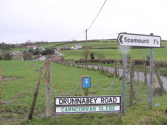 Drumnabey Road, Carncorran Glebe. Heading north